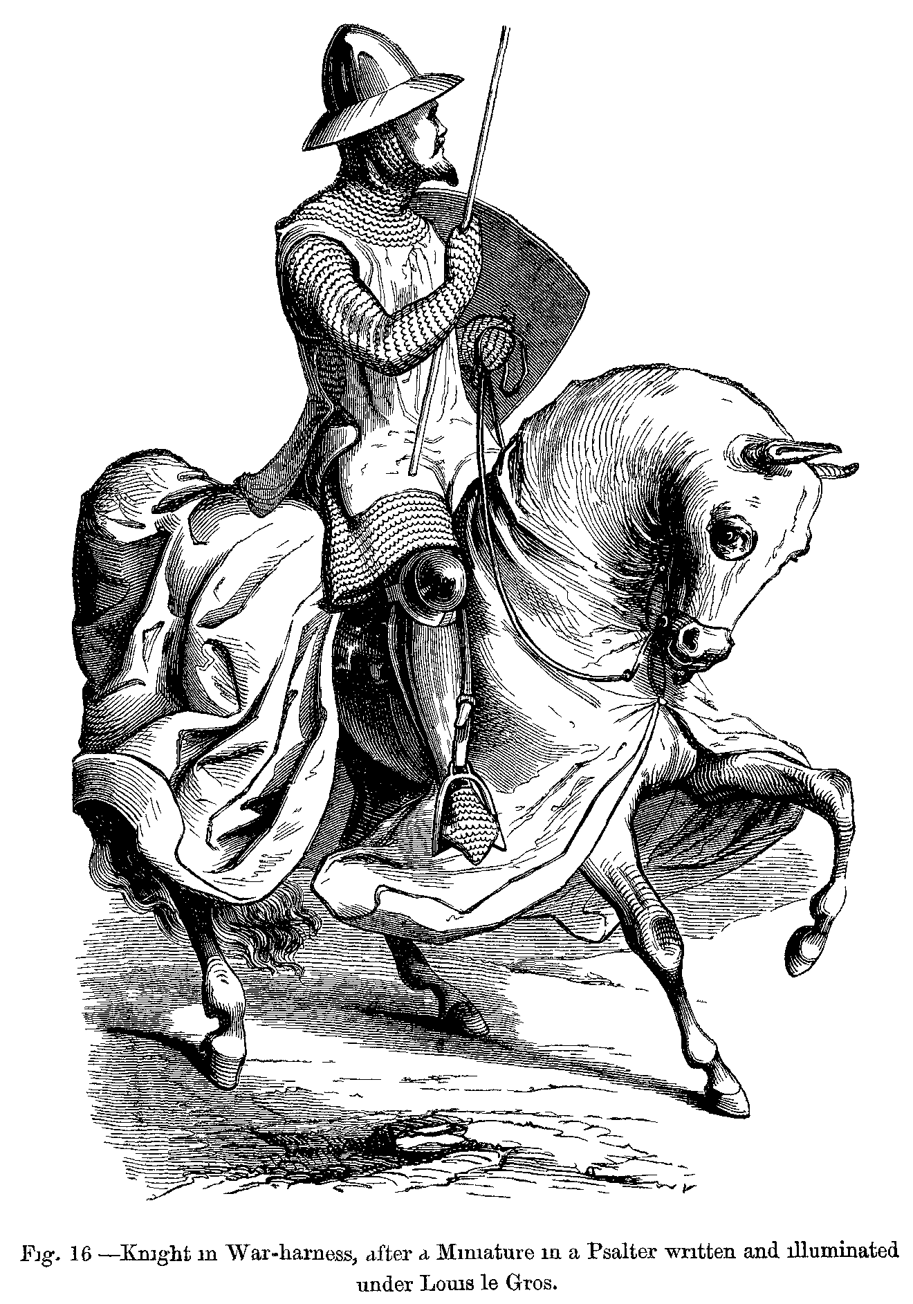 Knight in War-harness, after a Miniature in a Psalter written and illuminated under Louis le Gros. Project Gutenberg text 10940